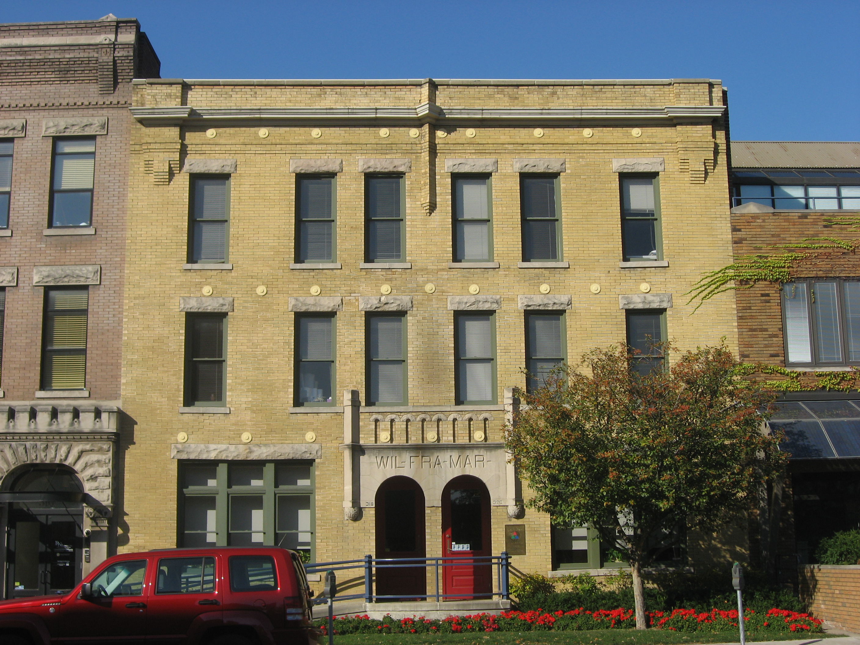 Front of The Wil-Fra-Mar, located at 318-320 E. Vermont Street in Indianapolis, Indiana, United States. Built in 1897, it is listed on the National Register of Historic Places.